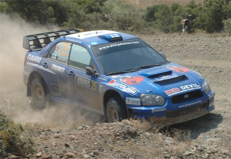 Kristian Sohlberg driving a Subaru Impreza WRC at the 2005 Acropolis Rally.